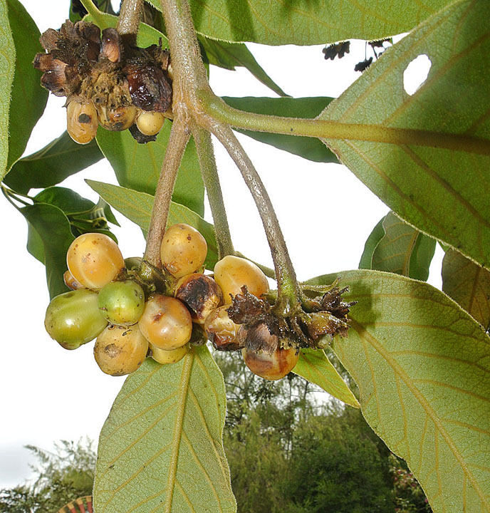 Aegiphila ferruginea (Pusupato tree) fruit, Botanical Gardens, Quito, Ecuador